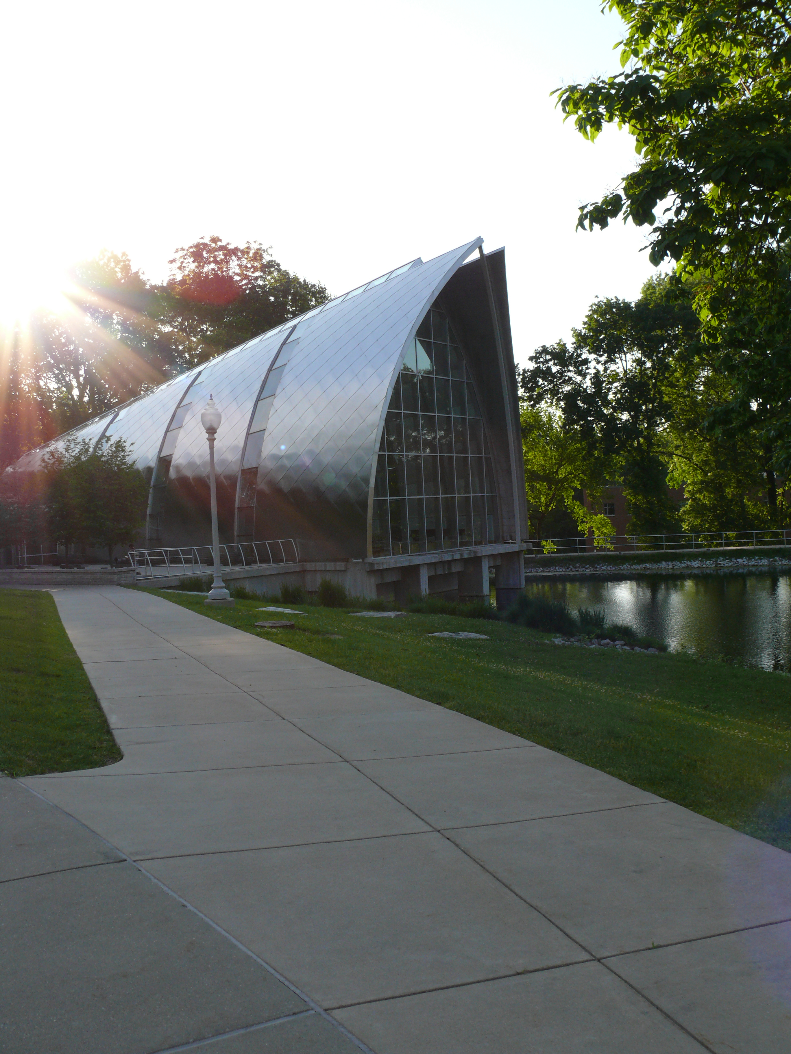 View of White Chapel at Rose-Hulman Institute of Technology. Taken with a Panasonic DMC-FZ50.